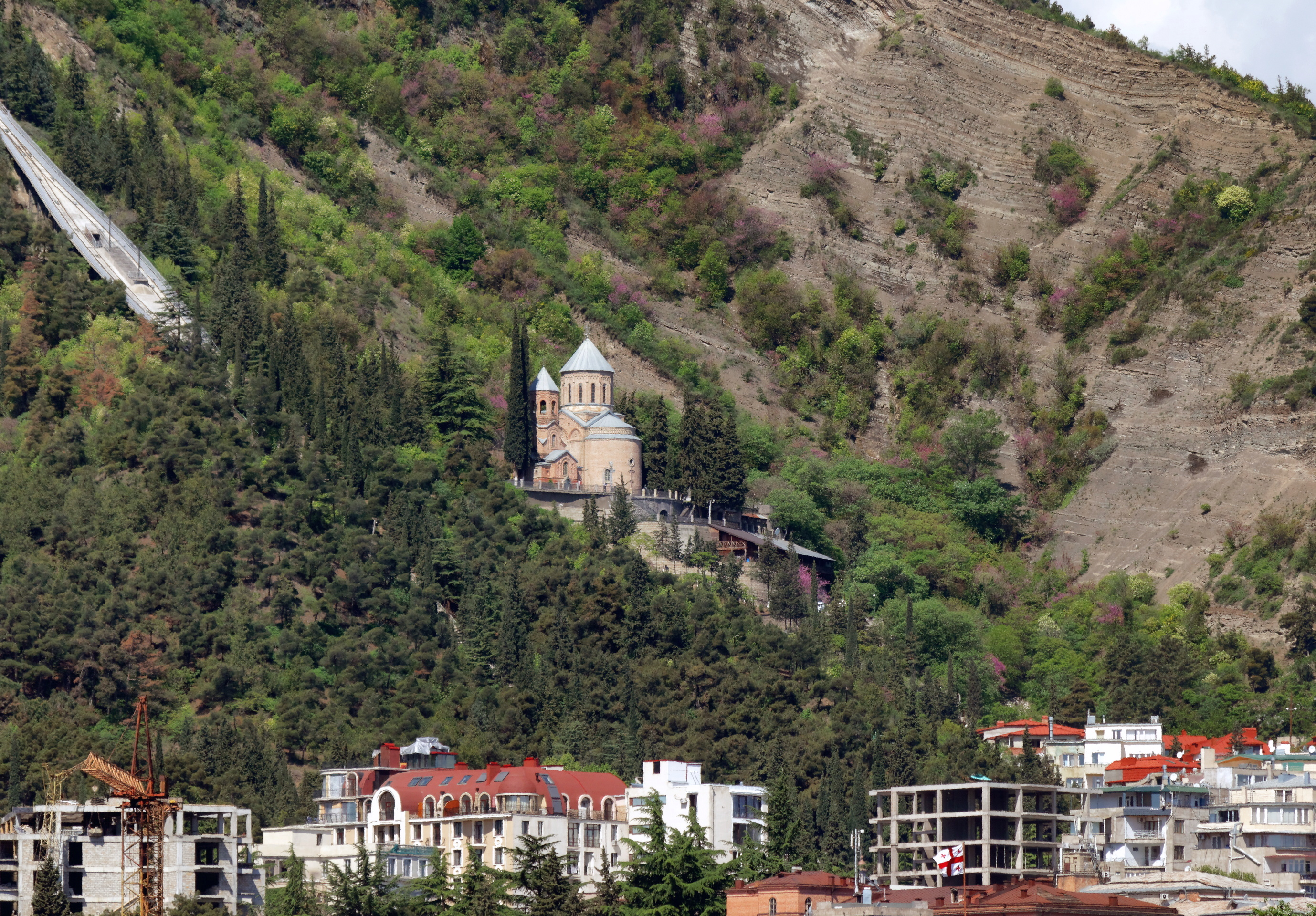 Tbilisi. Church of Saint David "Mamadaviti"